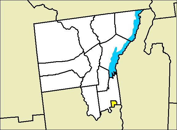 Map of Warren County, New York with city of Glens Falls highlighted.